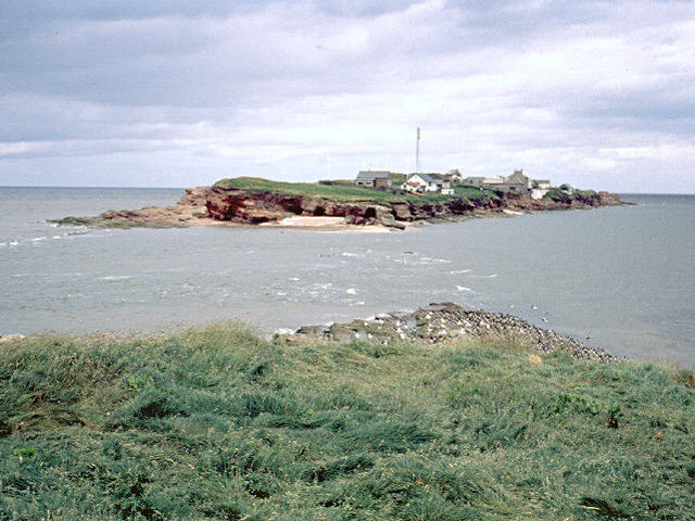 Hilbre Island, the Wirral, at high tide